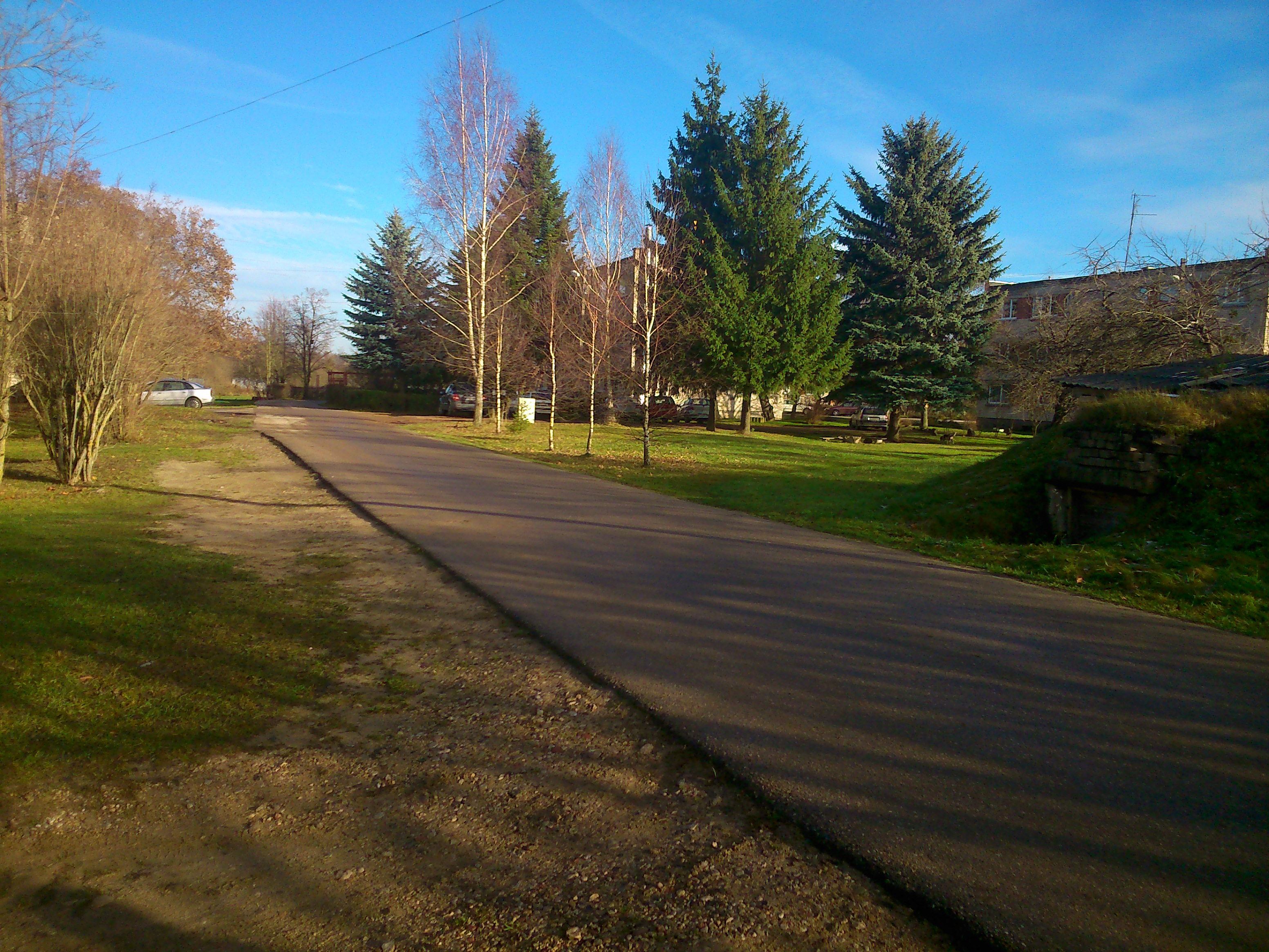 Miskukis (Jonava), Miskininku Str.